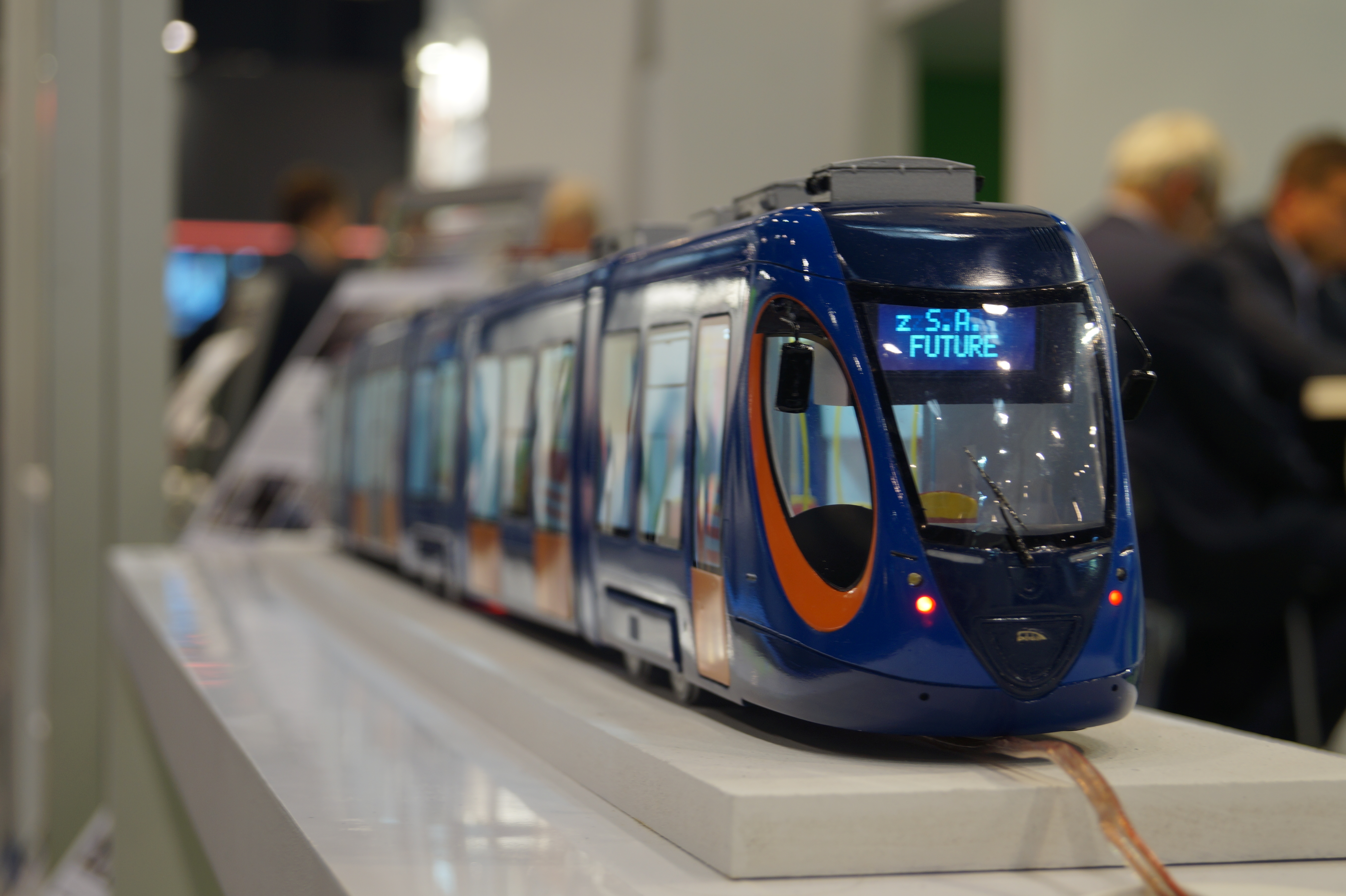 The making of this document was supported by Wikimedia Polska Association, within Wikigrant no. WG 2015-34. English | polski | +/− Model tramwaju Pesa Future wystawianego na Targach Trako 2015